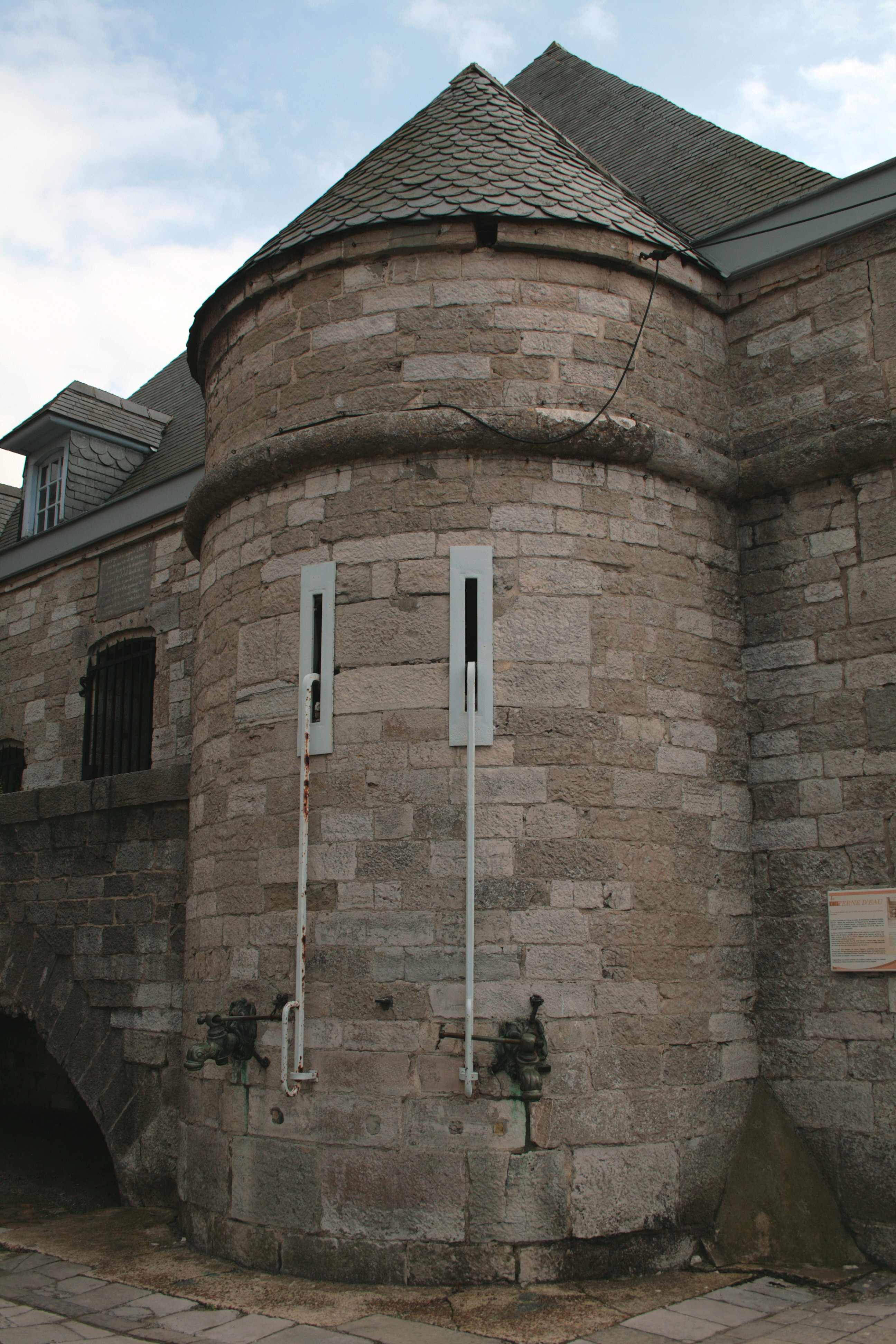 Gravelinnes (Nord) France, two hand pumps of the cistern of the citadel.